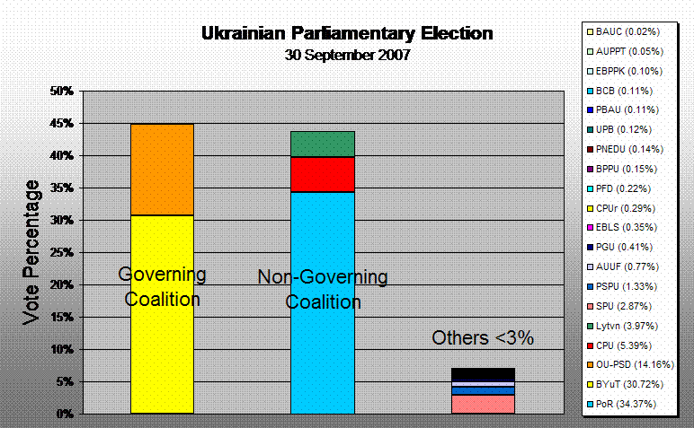 Ukrainian parliamentary election, 2007.